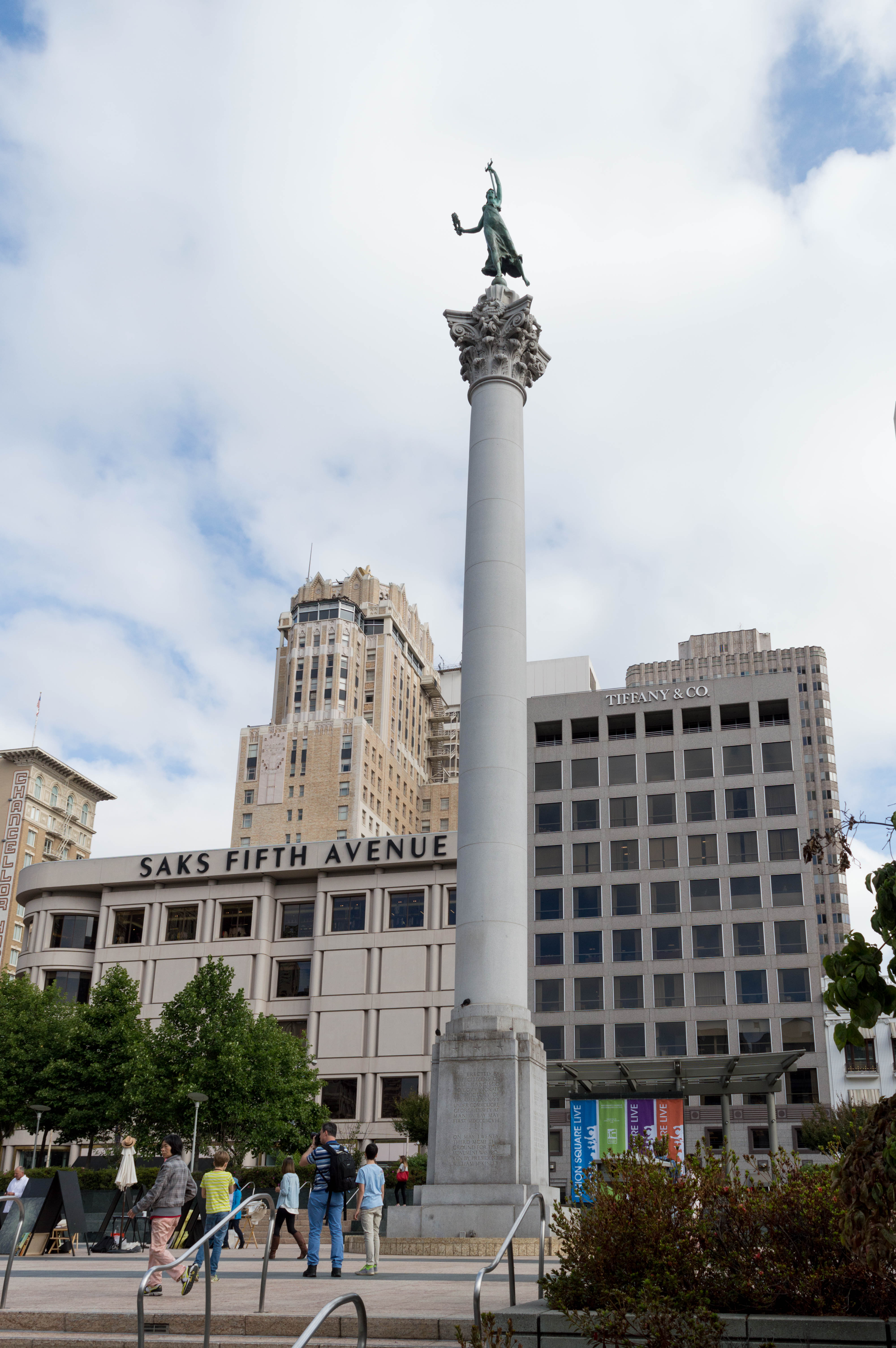 Union Square with in the center the Dewey Monument.